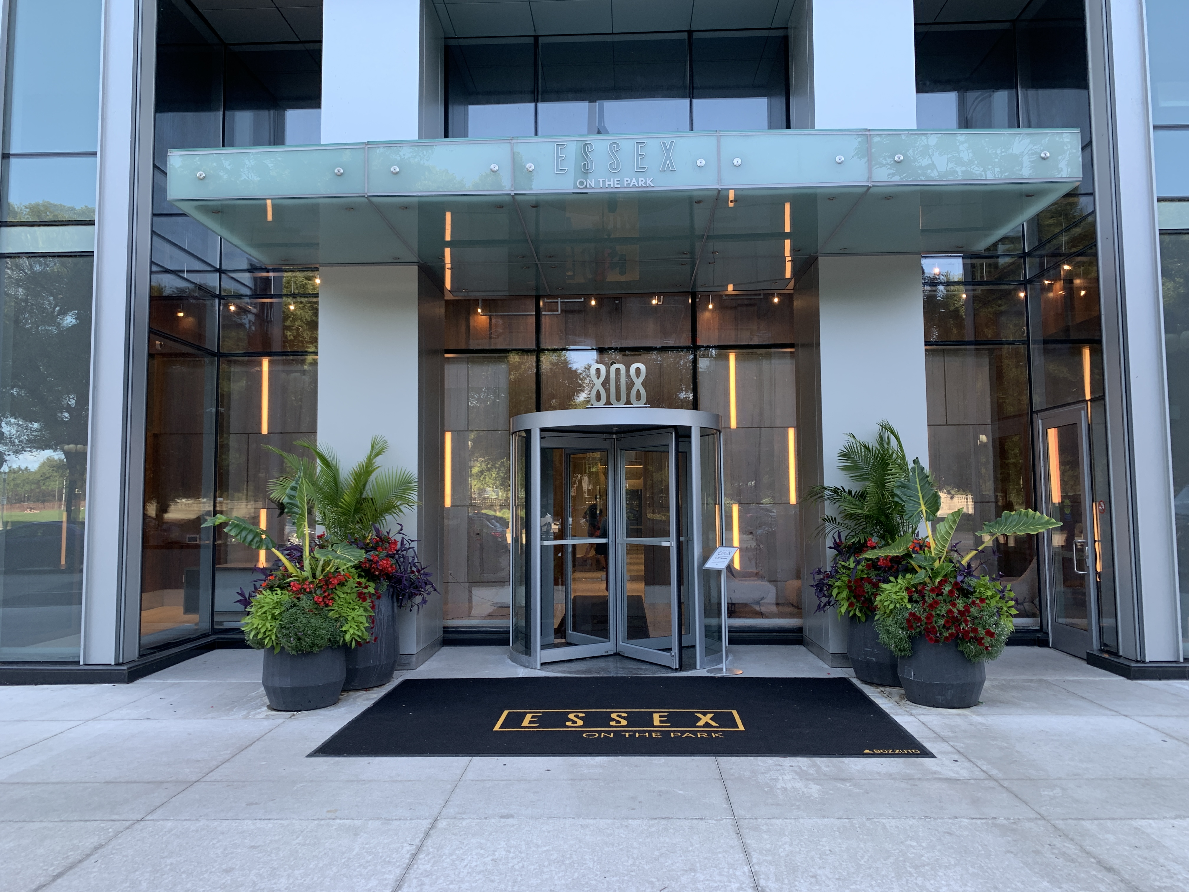 This picture depicts the address of the main entrance to Essex on the Park, which is controversial in the press